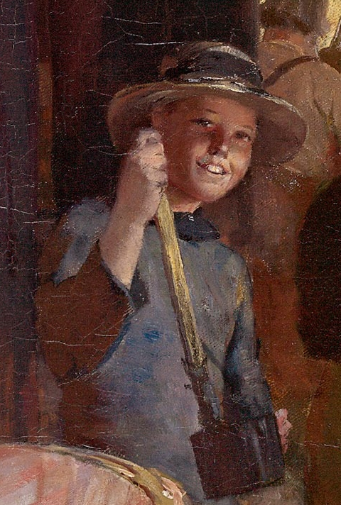 Detail from Tom Roberts' 1890 painting Shearing the Rams.